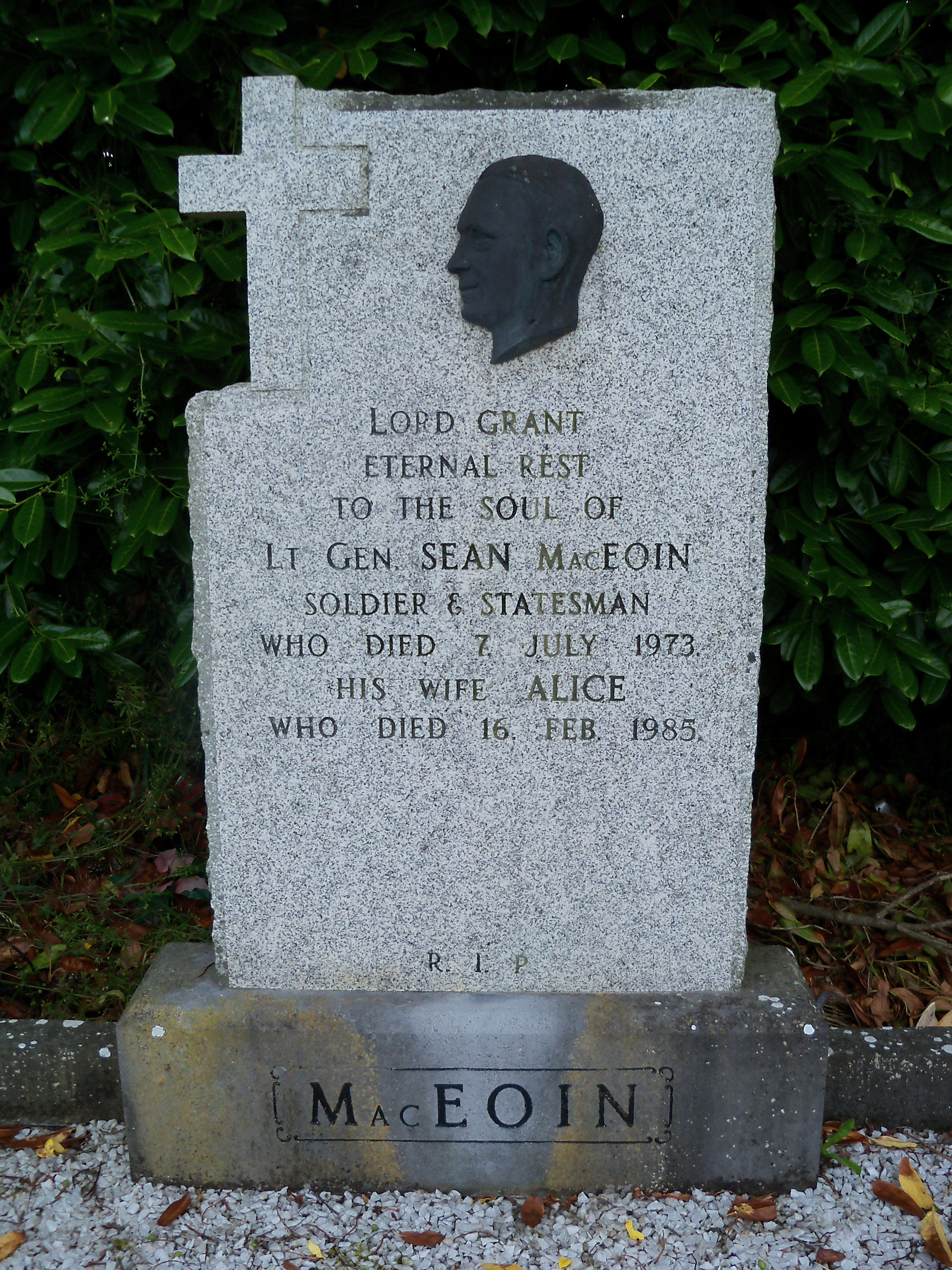 The burial site of Sean MacEoin, in St. Emer's Cemetery, Ballinalee, Ireland. MacEoin was an Irish soldier and statesman.